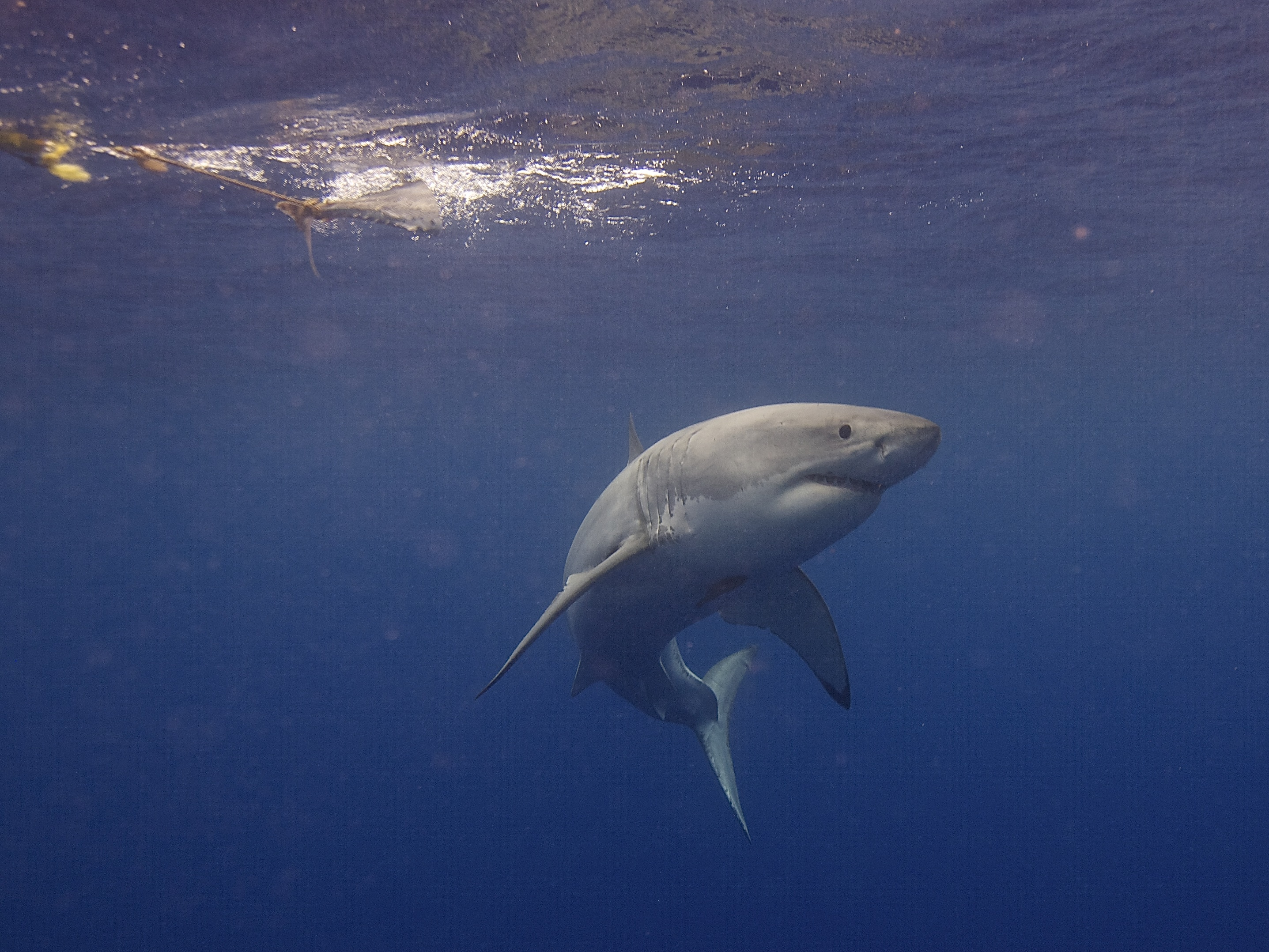 Great White Shark